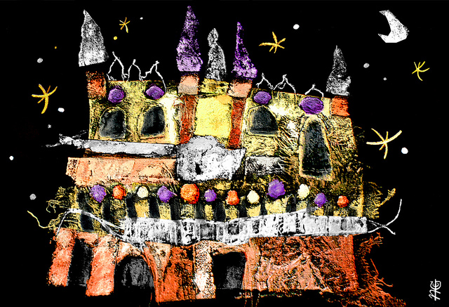 This etching is a collagraph printed by re-using materials from the atelier: tarlatana, carborundum, sandpaper and thread.